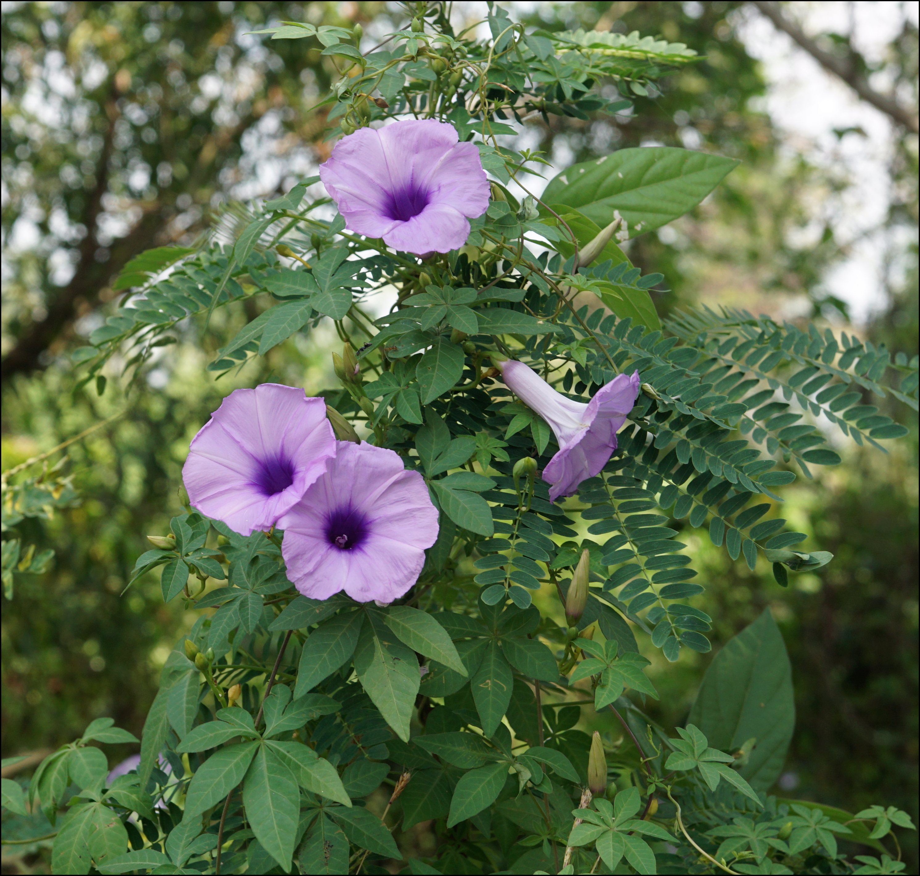 Messina creeper ( Ipomoea cairica ) at Kozhikode, Kerala, India.